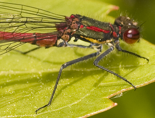 Cropped image of a Damsel fly on a hydrangea leaf, illustrating use of Canon 50mm f2.5 Compact Macro lens